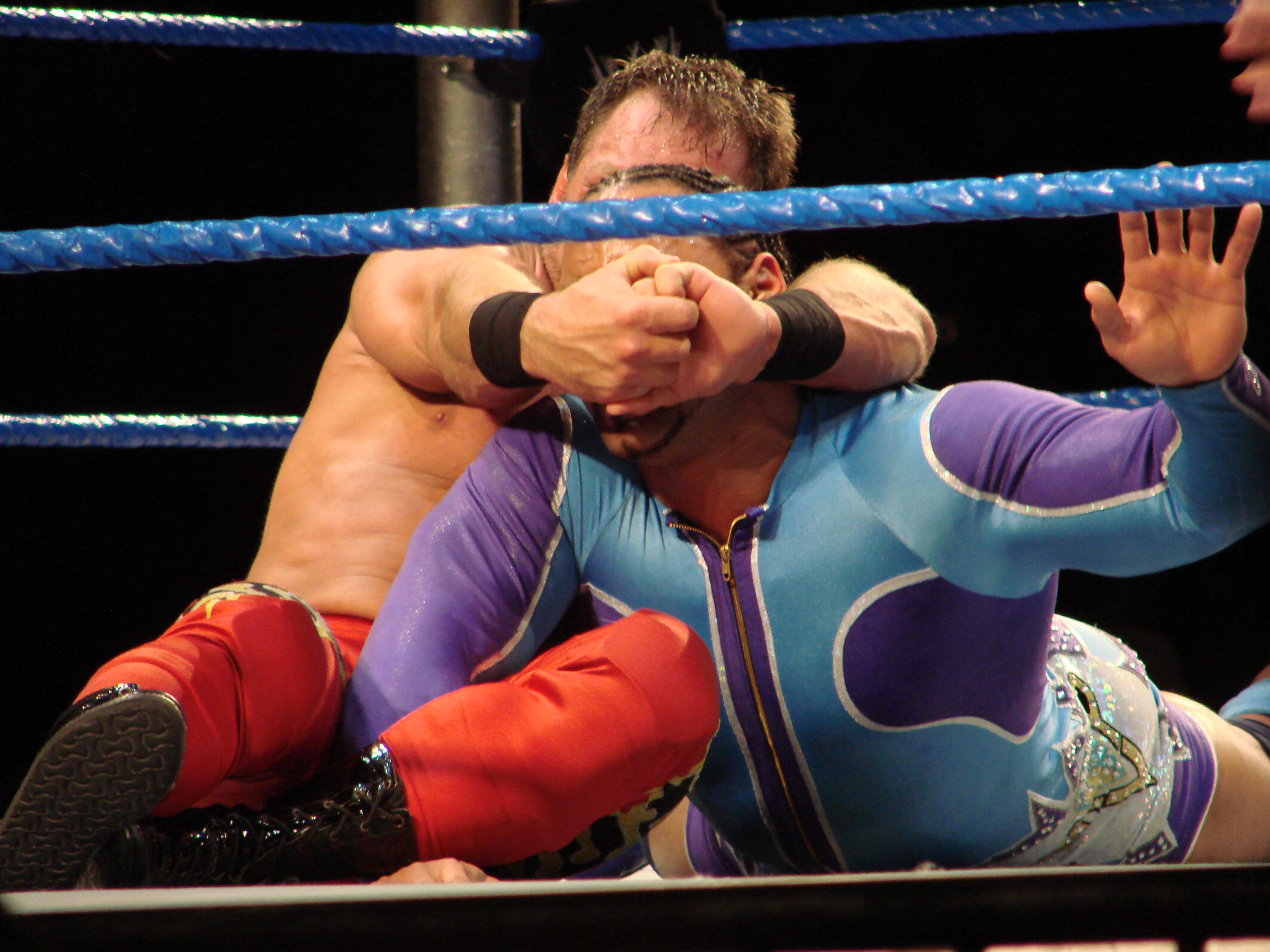 Chris Benoit does a Crippler crossface on Montel Ventavious Porter.